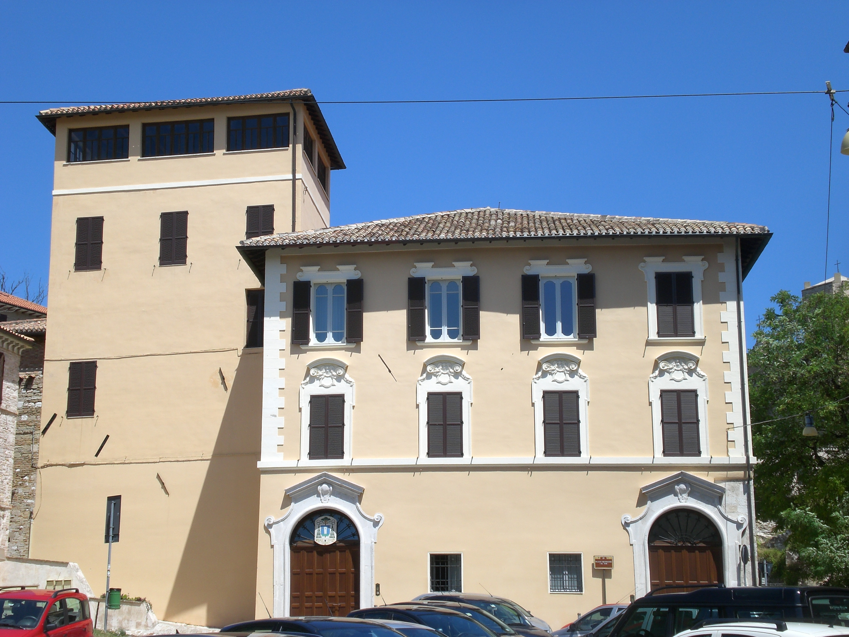 XVIII Century